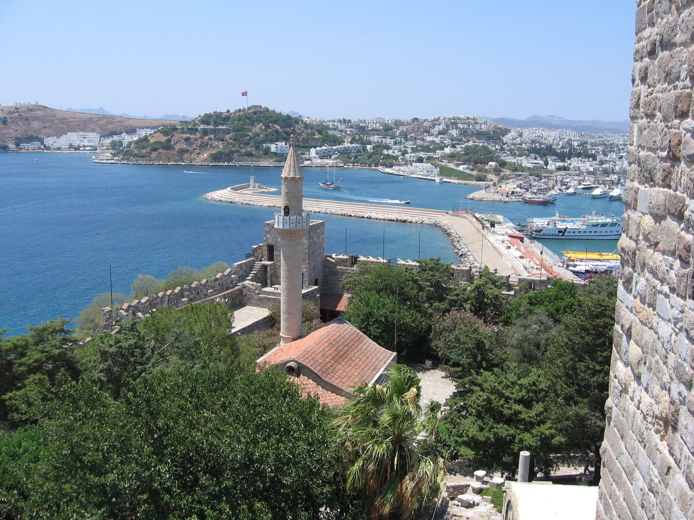 View on mosque, breakwater, marina and part of the city from castle of St.Peter in Bodrum, Turkey.